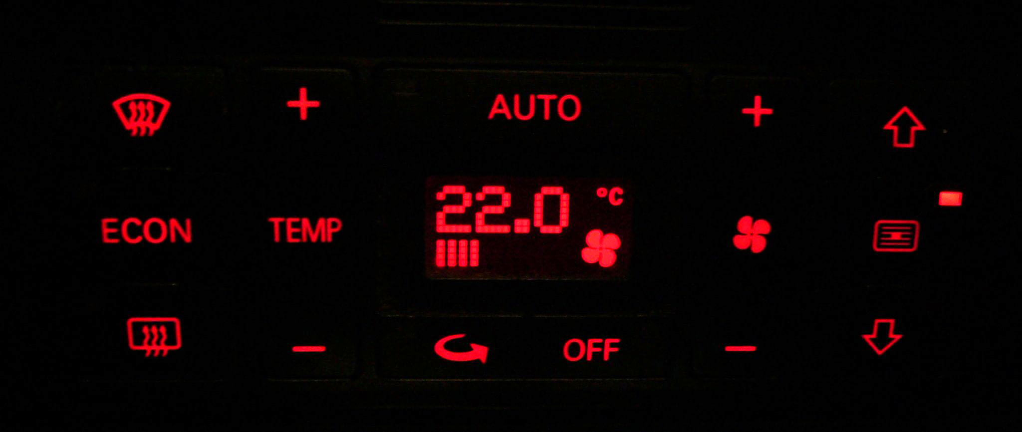 Panel of an A/C of Audi (illuminated)